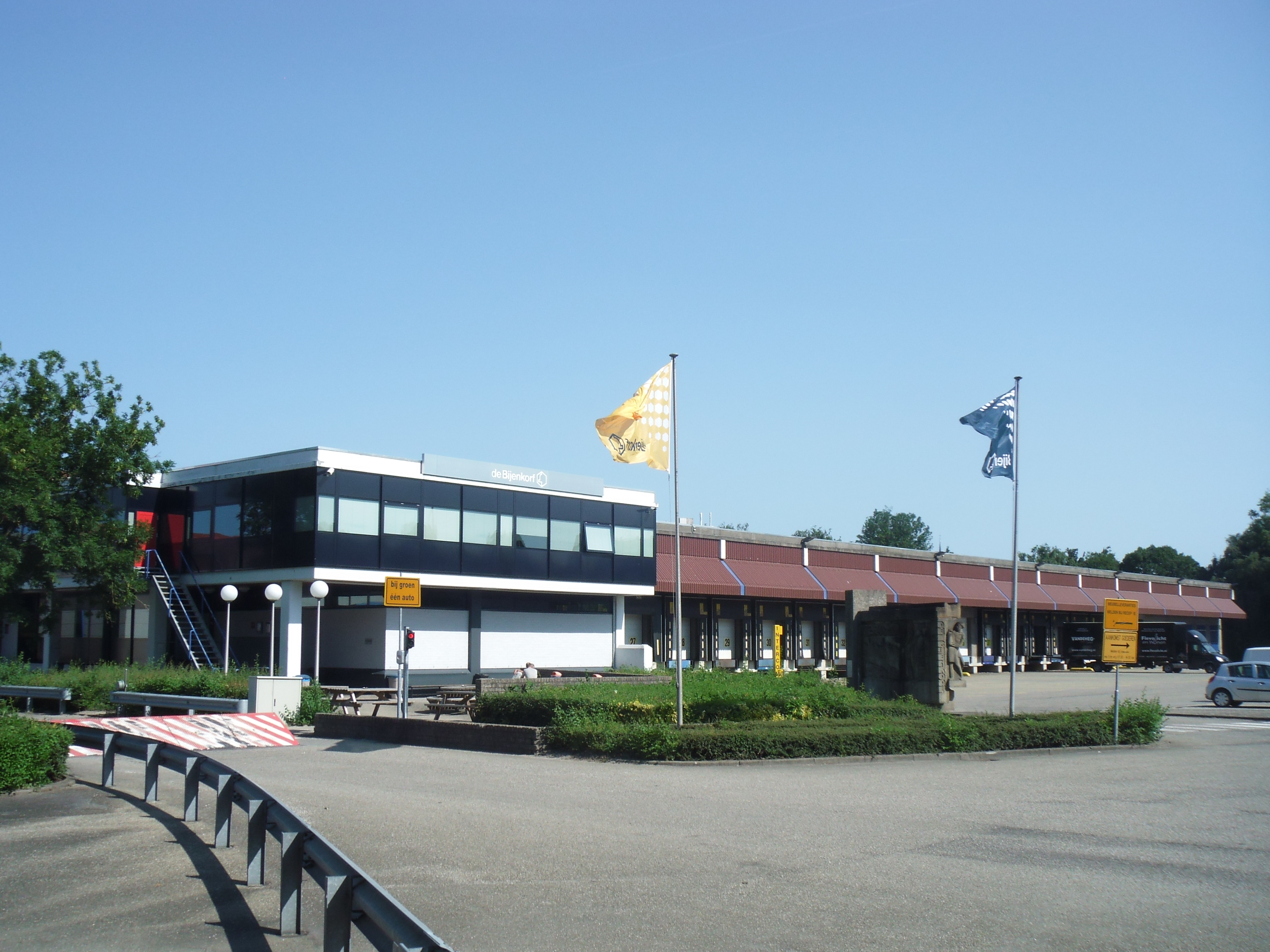 dc 2nd picture